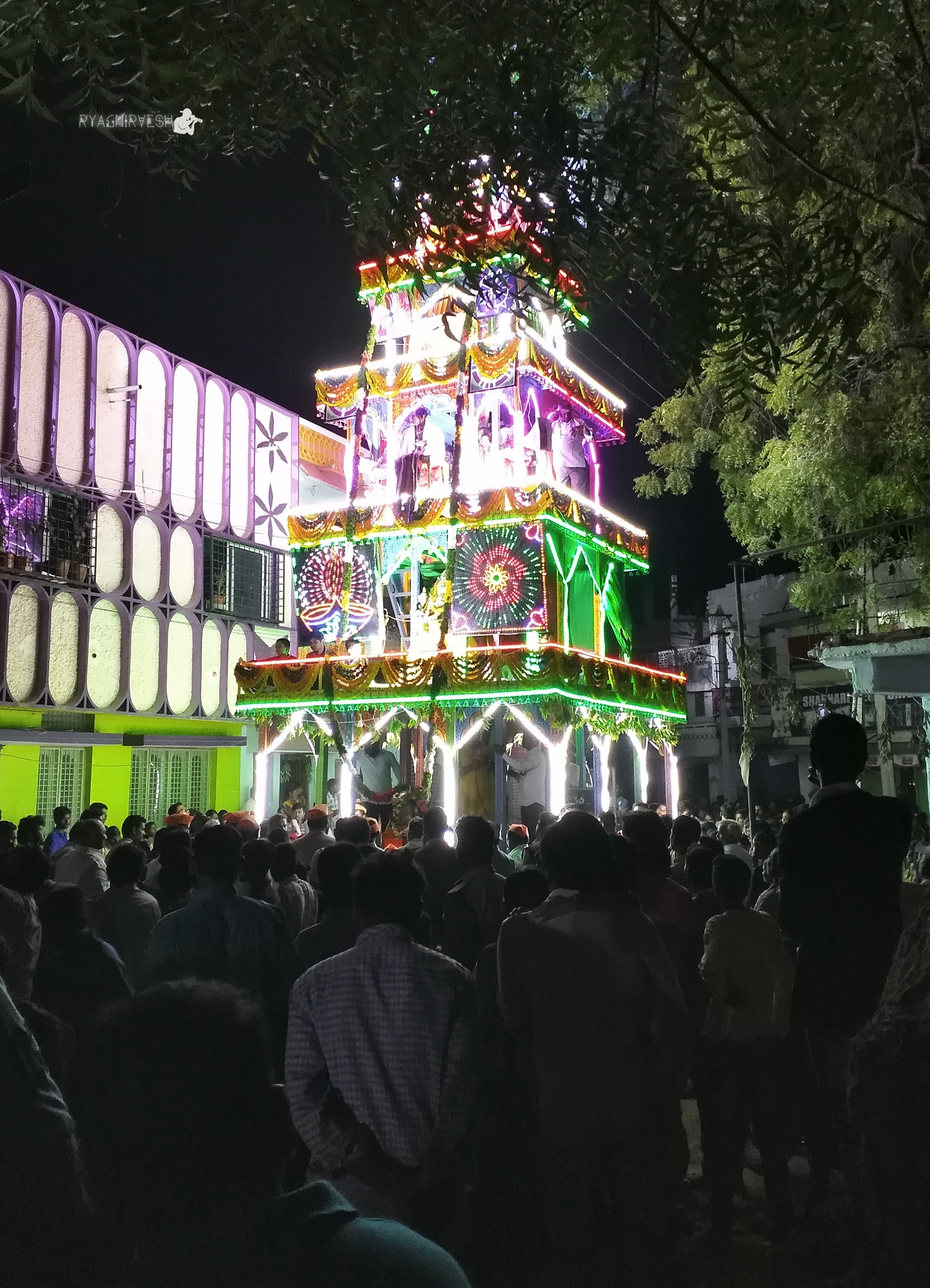 This is the Chariot(Called as "ratham" in telugu language) of the lord shiva who is blessing the people in form of Joginath in Joginath temple in jogipet Sangareddy district. This chariot is the world's tallest iron made chariot. It's height is 50 feet tall.